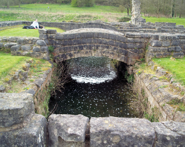 Bridge over mill race Roche Abbey. English Heritage site.